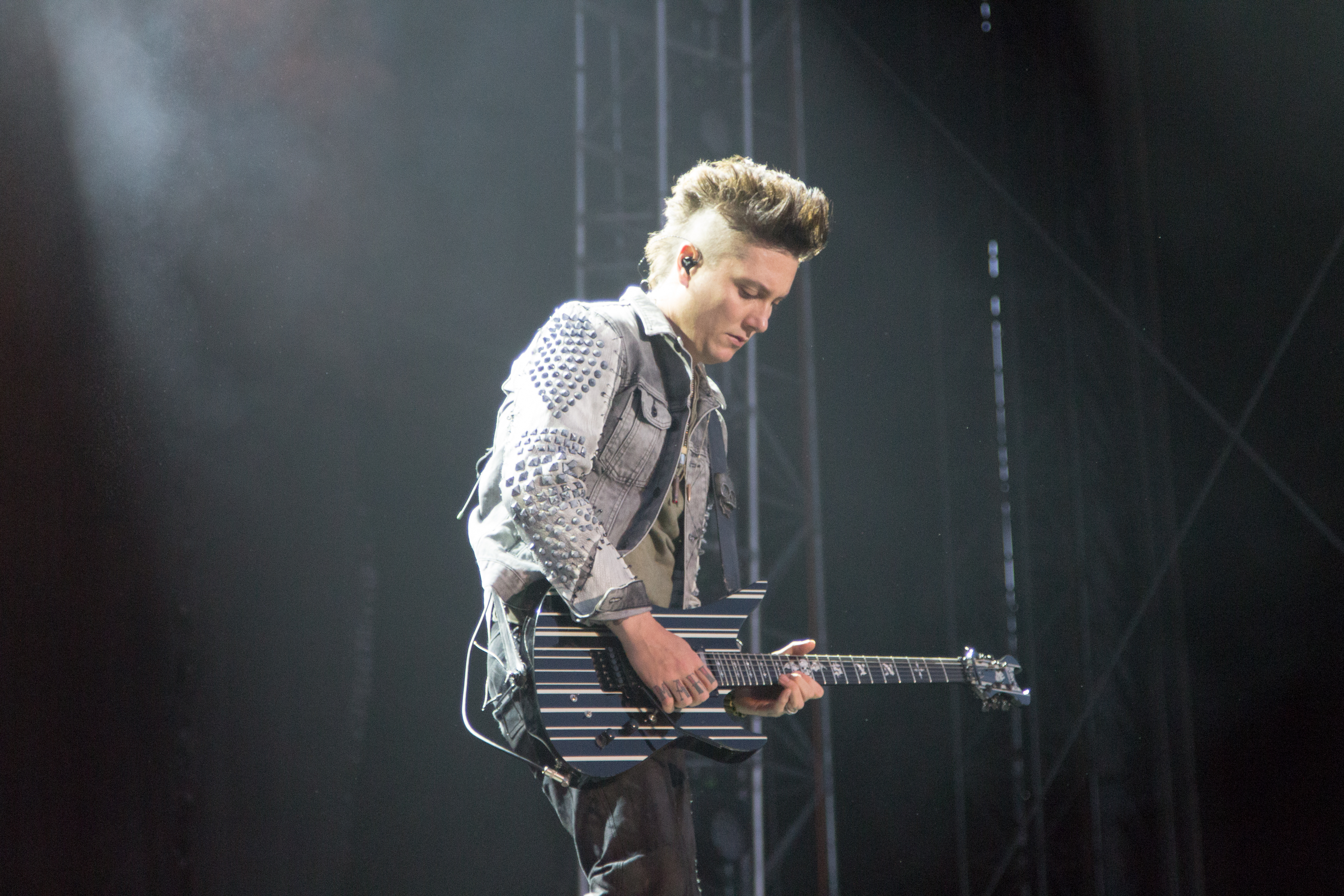 Synyster Gates from Avenged Sevenfold at Nova Rock 2014